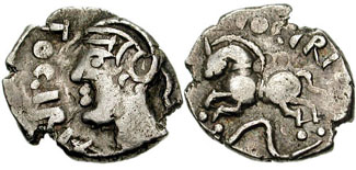 Celtic, Gaul. Sequani. Togirix. Circa 2nd Century BC. AR Denarius (15mm, 1.90 g). Helmeted female head left, in front: TOGIRIX Horse galloping left; serpent below; aboce: TOGIRI CCCBM II 374; De la Tour 5550. Toned, near VF.